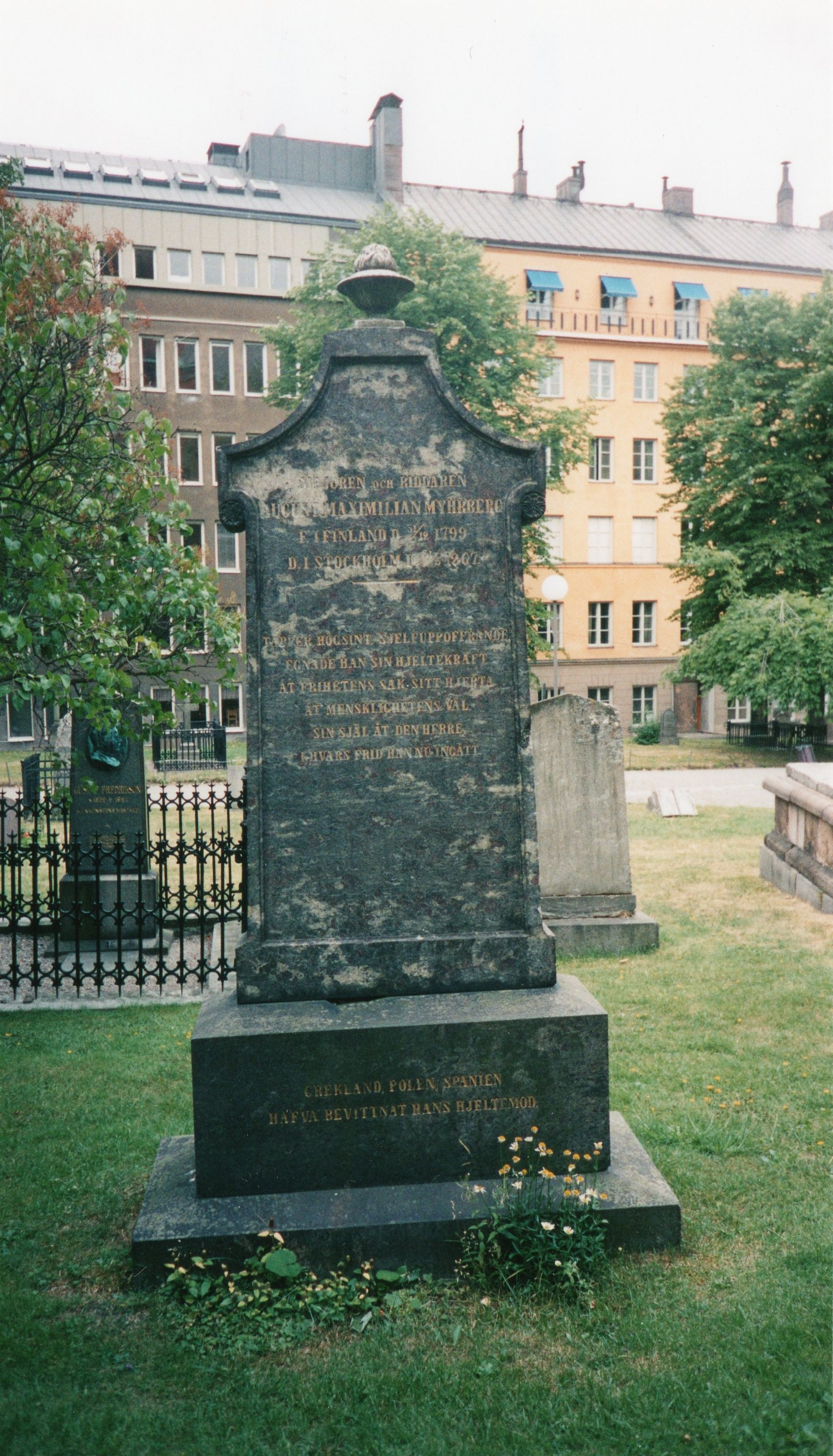 August Maximilian Myhrberg' tomb; st johns cemetery, Stockholm, Sweden